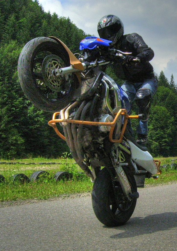 Image cropped from original Powerwheelie